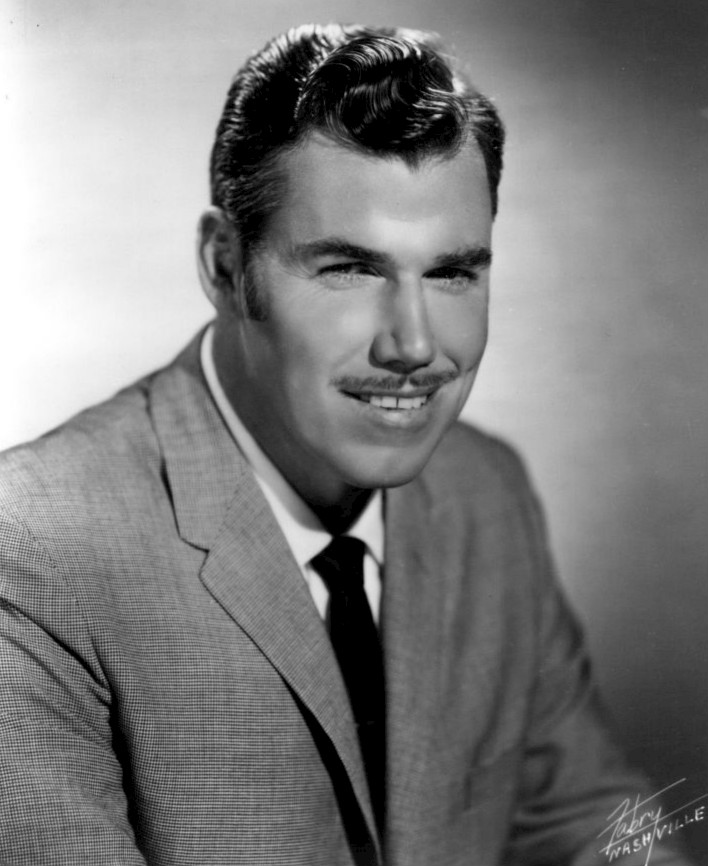 Publicity photo of singer, songwriter and musician Slim Whitman.